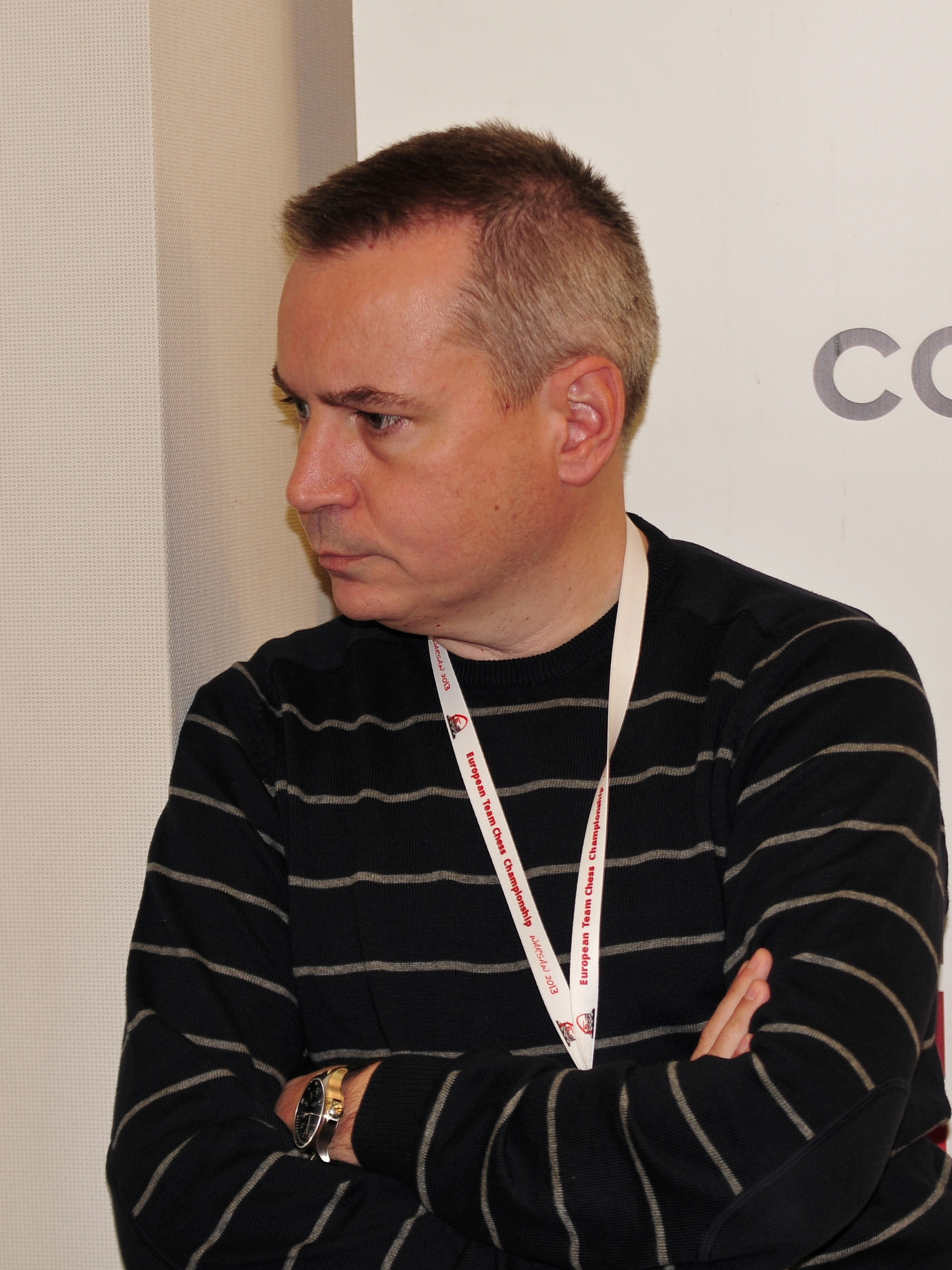 GM Jordi Magem Badals, European Chess Team Championship Warsaw 2013